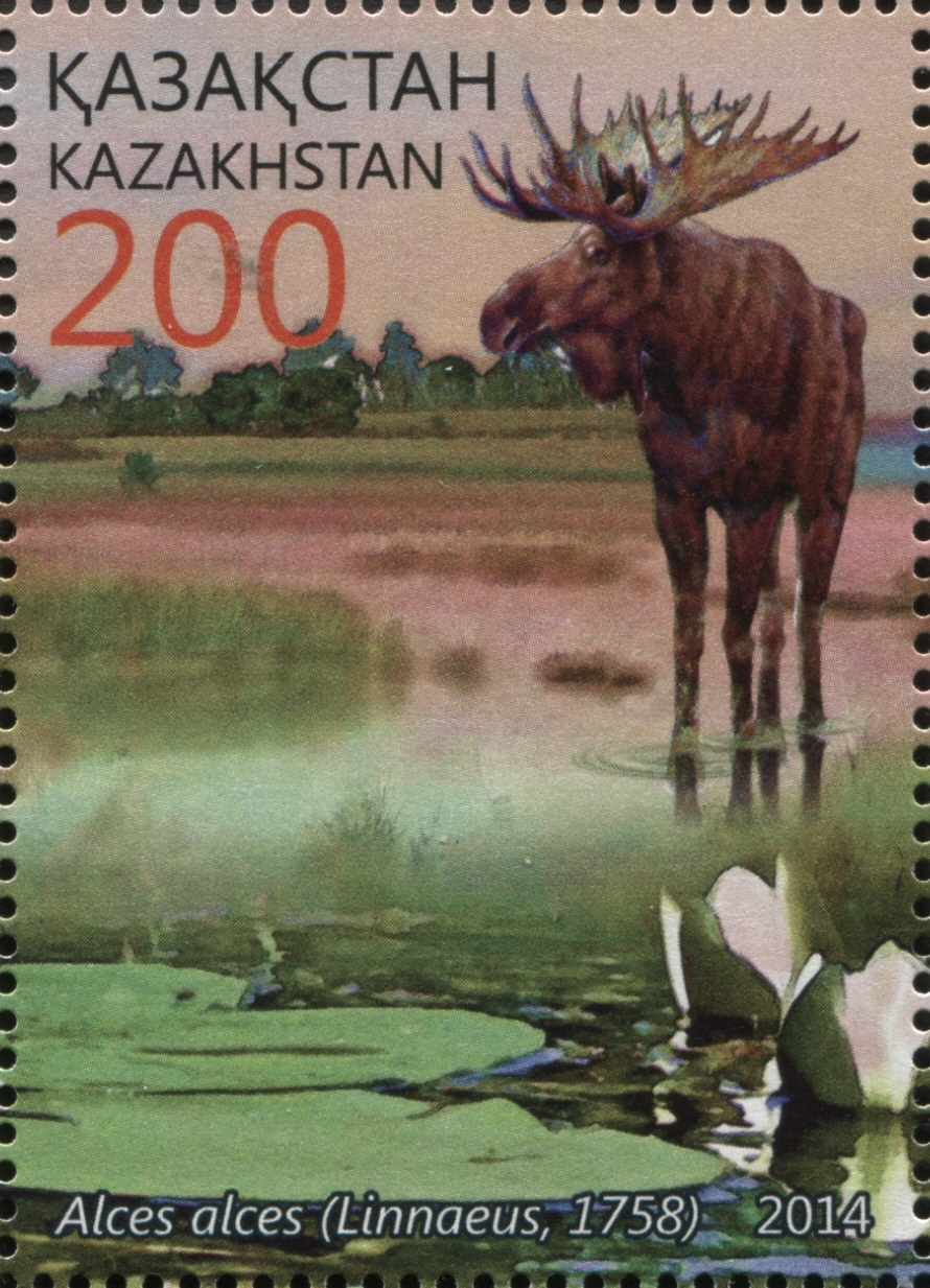 Stamps of Kazakhstan, 2014